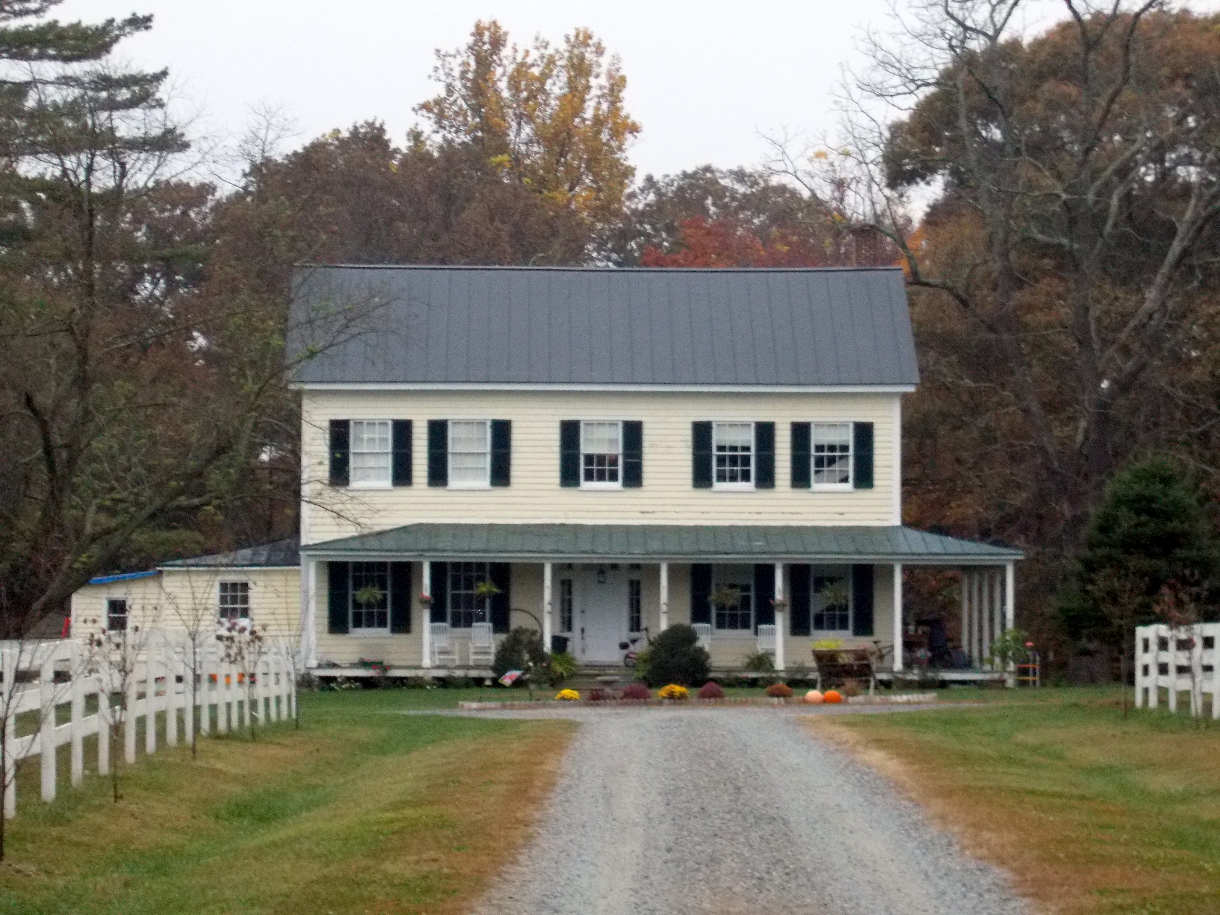 Cleydael, Weedonville, Virginia, October 2012, at 7147 Peppermill Road.